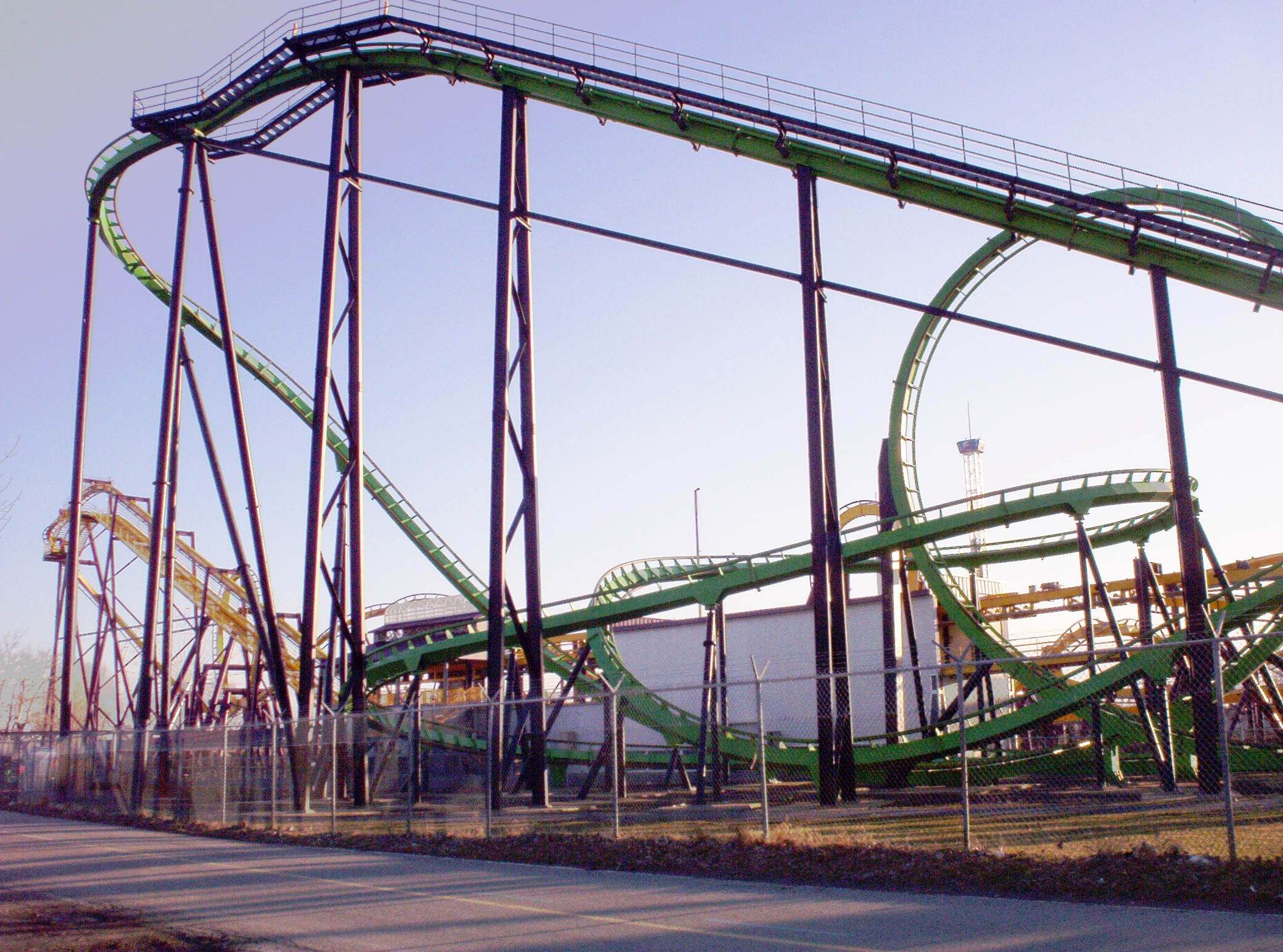 Summary: View on rollercoasters in "La Ronde" amusement park in Montreal, Quebec Author: Colocho Date: April 26th, 2006